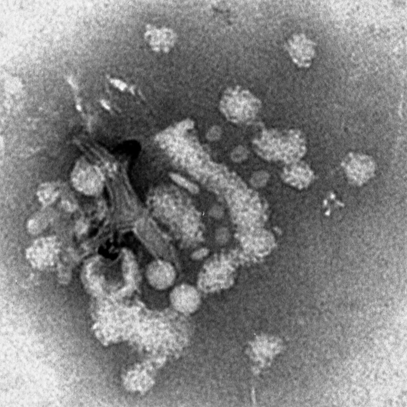 Enterovirus virions in Rigvir drug active substance. Electronmicrophotography (magnification 150 000x) The negative staining method.